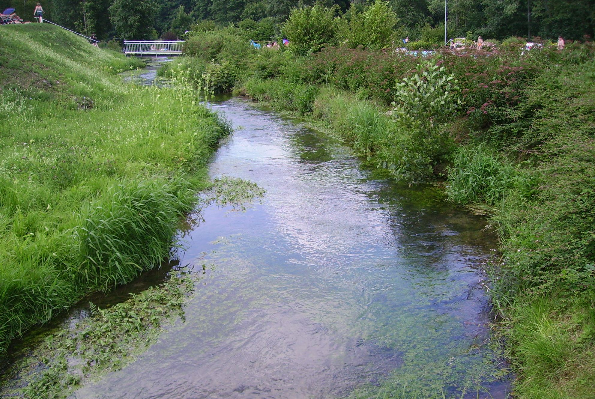 town in Germany